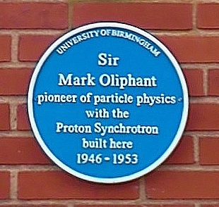 University of Birmingham - Poynting Physics Building - blue plaque to phyicist Sir Mark Oliphant